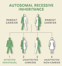 Autosomal recessive inheritance of a genetic disorder